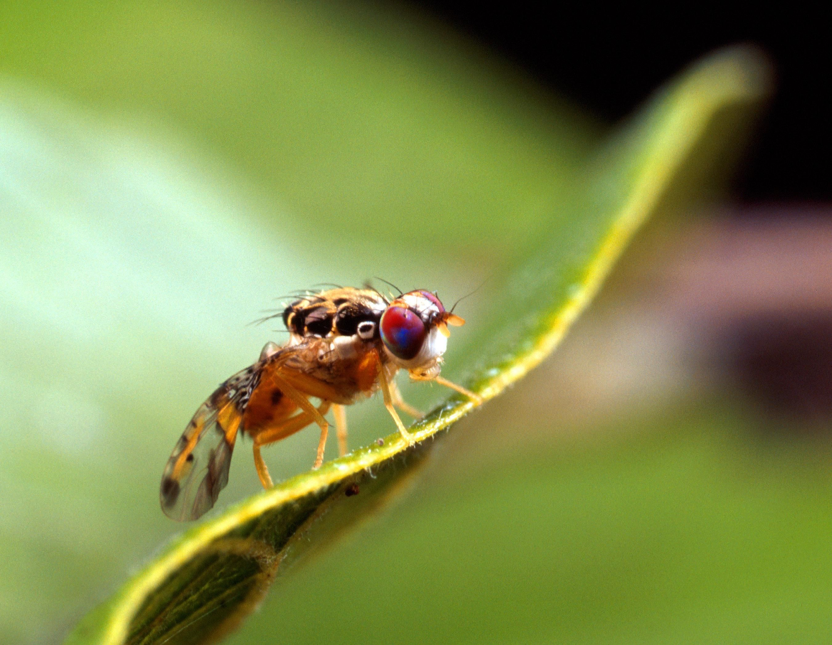 Image title: Male medfly close up insect Image from Public domain images website